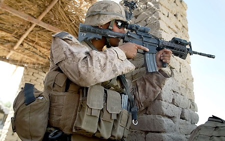 U.S. Marine in Afghanistan.